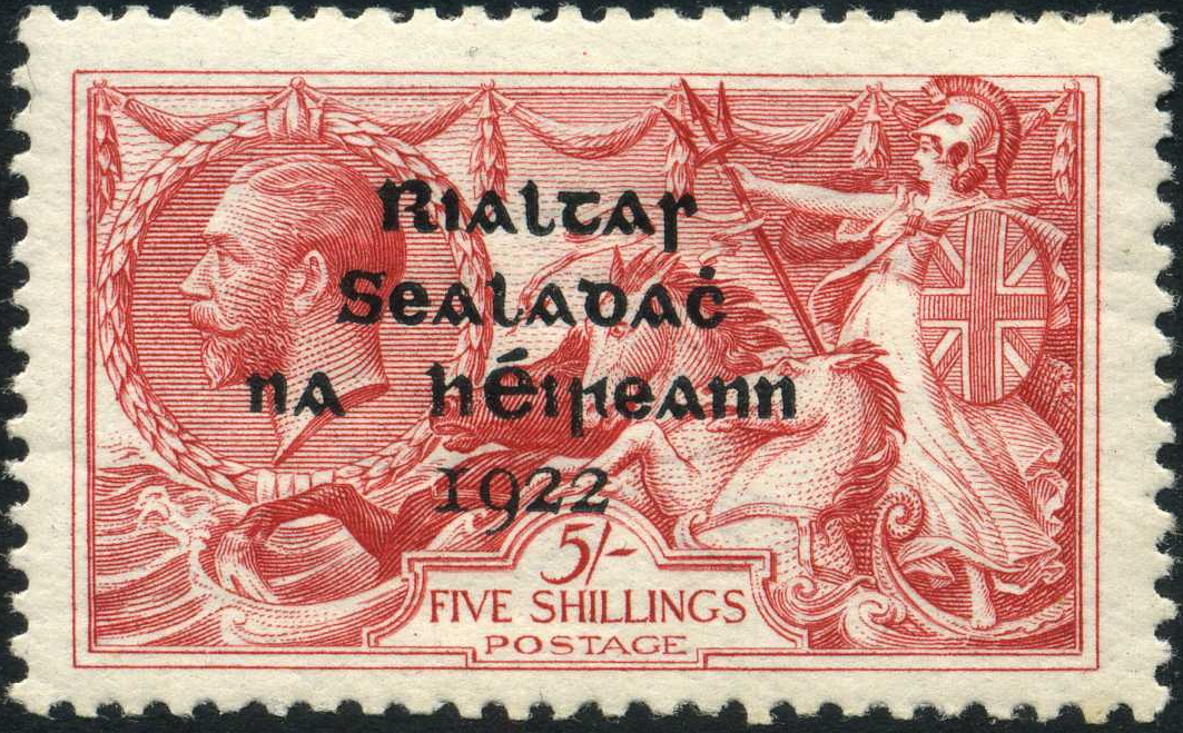 Irish Free State five-line overprint Rialtas Sealadaċ na hÉireann 1922 on 5/- King George V stamp for use in Ireland following independence from the United Kingdom